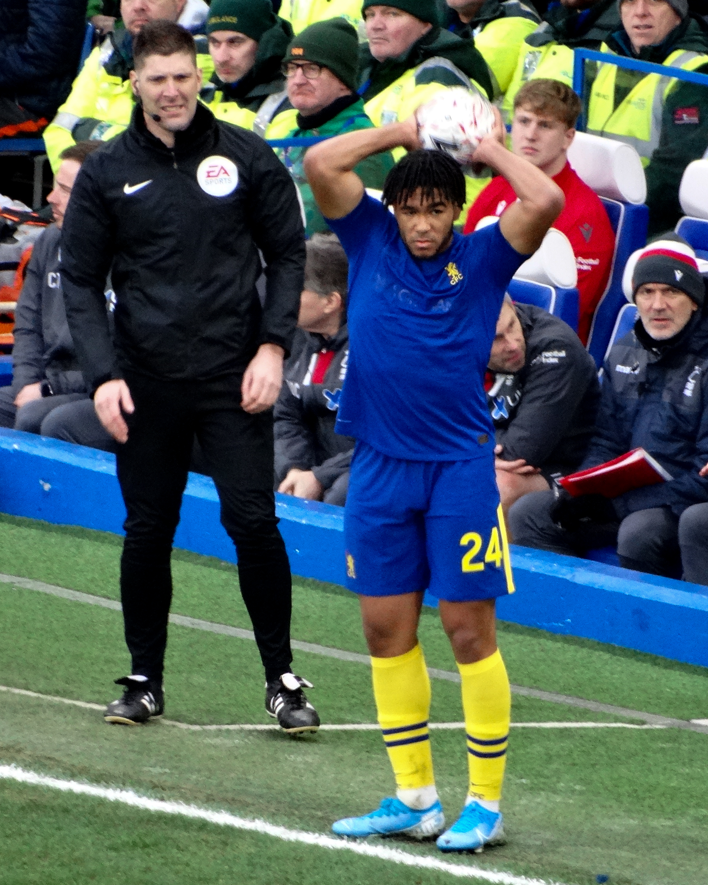 The match of FA Cup